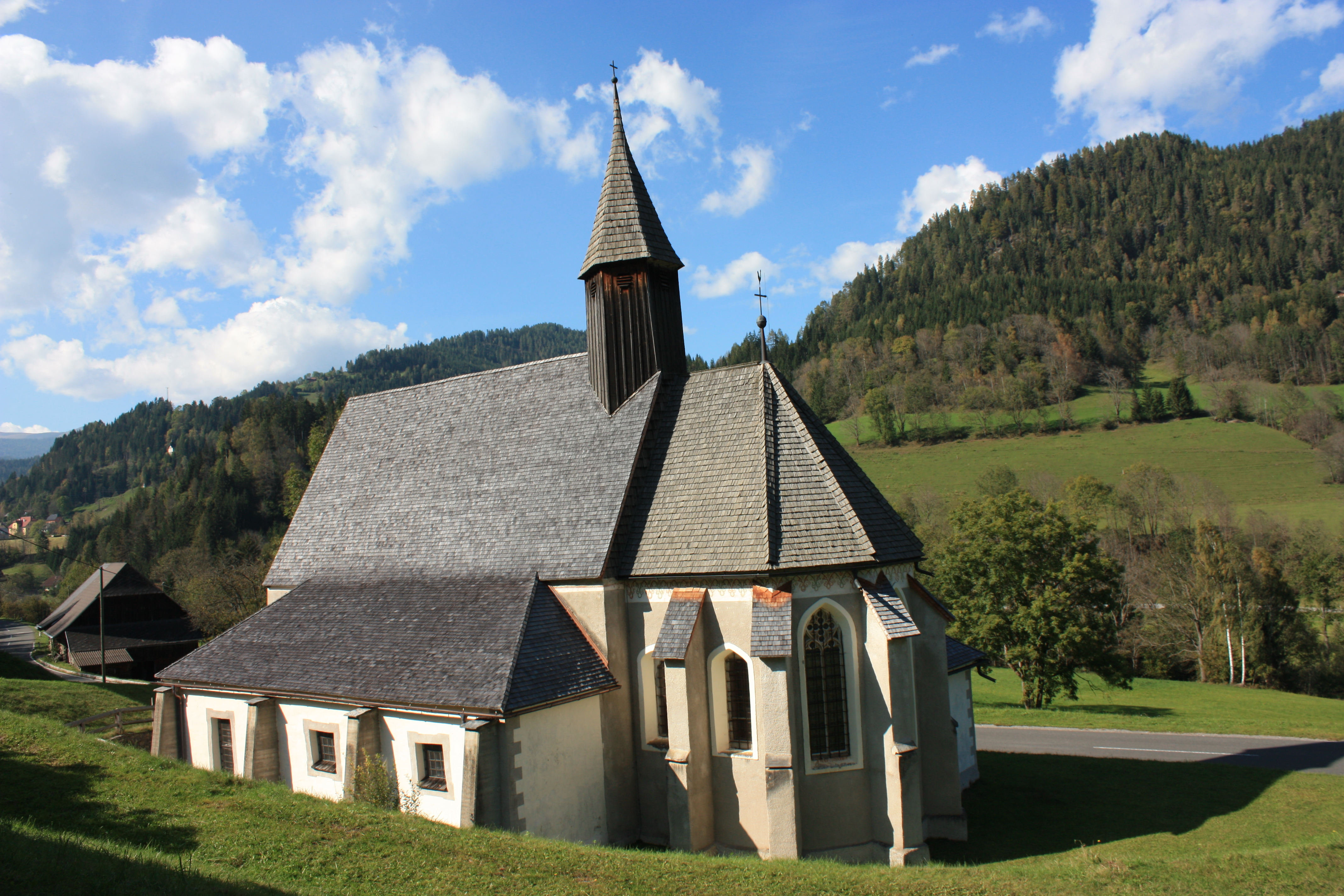 Subsidiary church Maria Höfl Locality:Maria Höfl Community:Metnitz